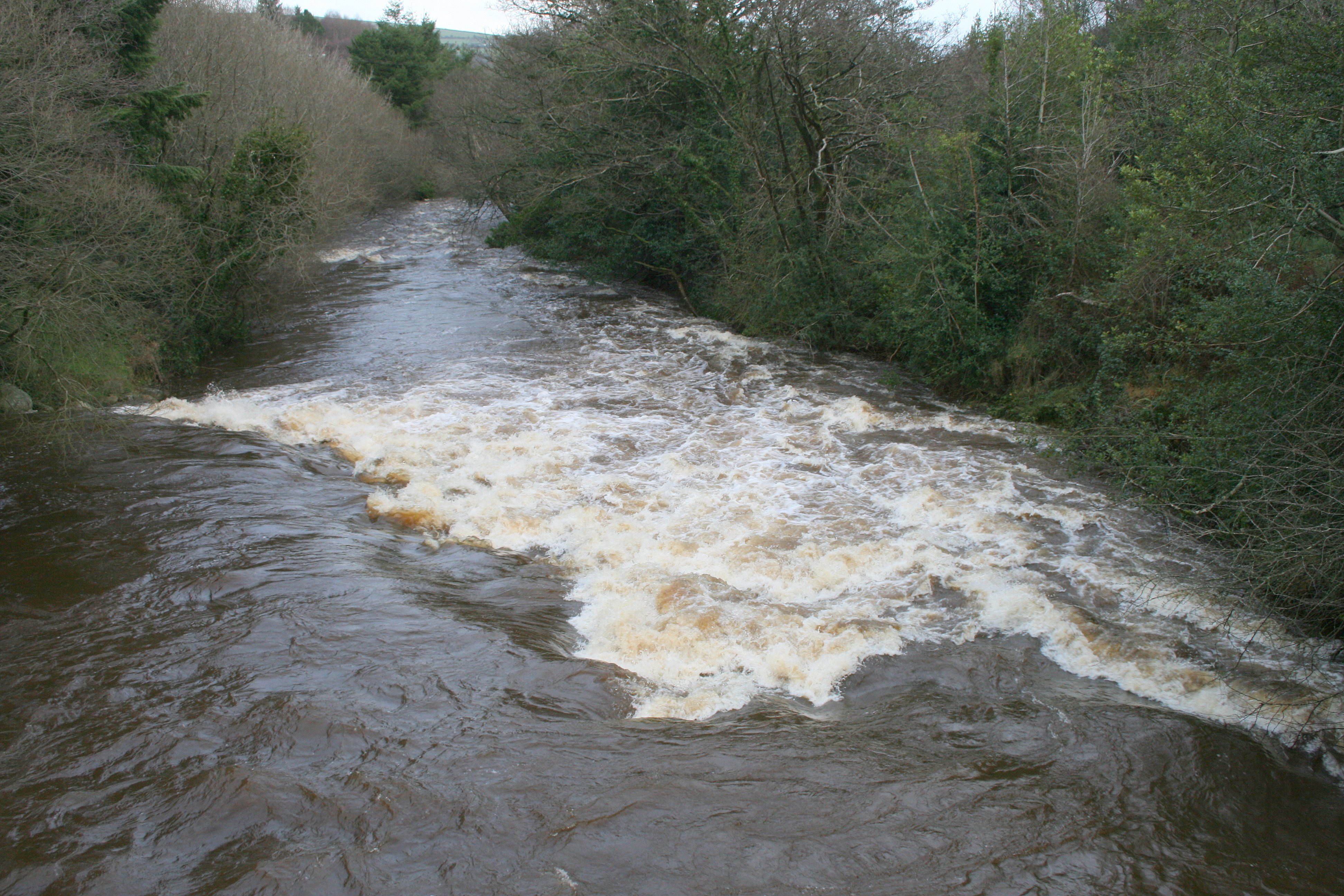 The Aughrim River where it passes under the R747 road near Aughrim, County Wicklow, Ireland.